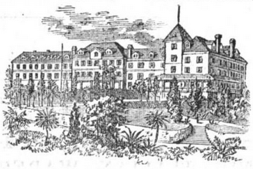 Hamilton Hotel, Bermuda